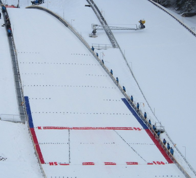 Chiara Hölzl